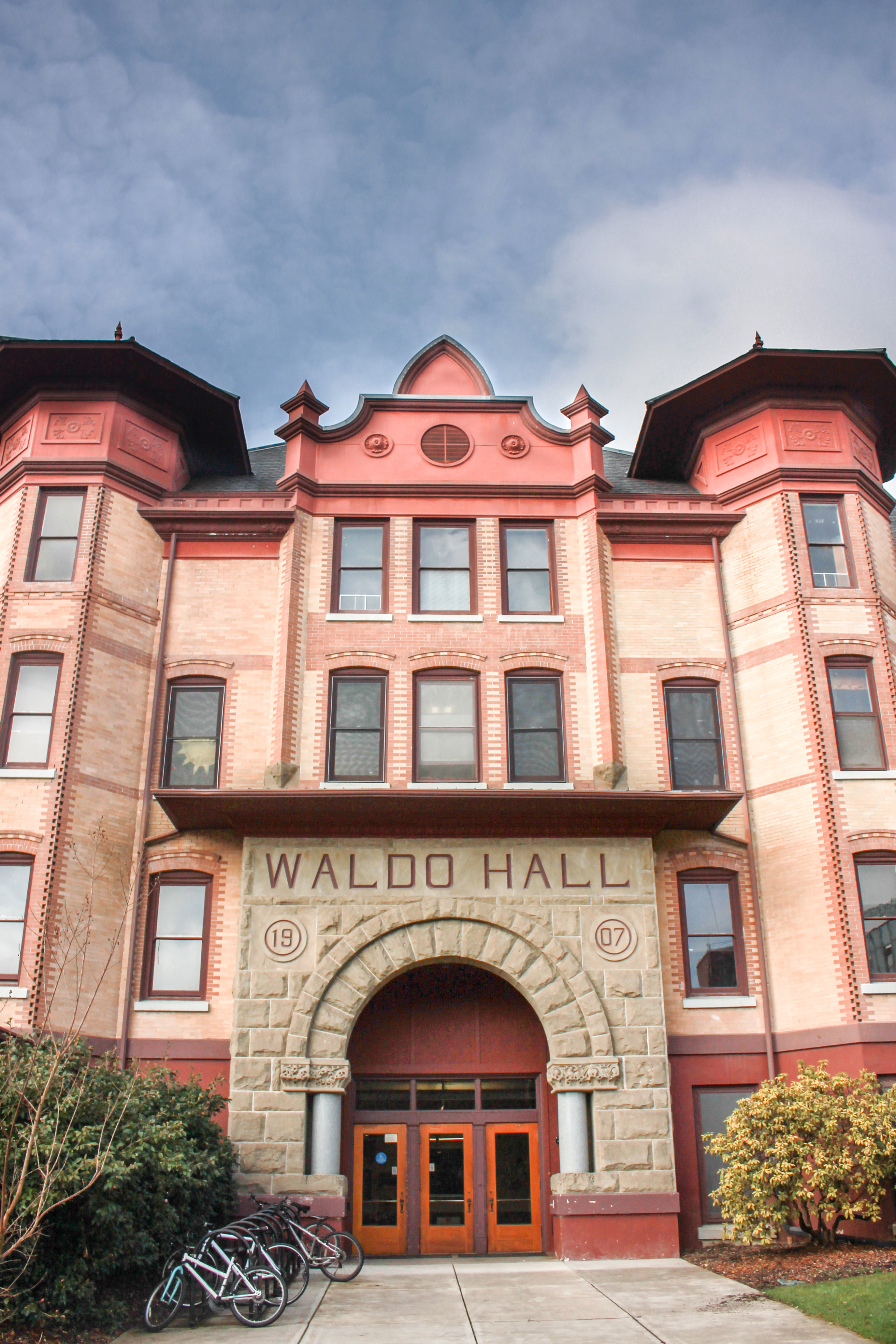 A photo of the front of Waldo Hall in 2017